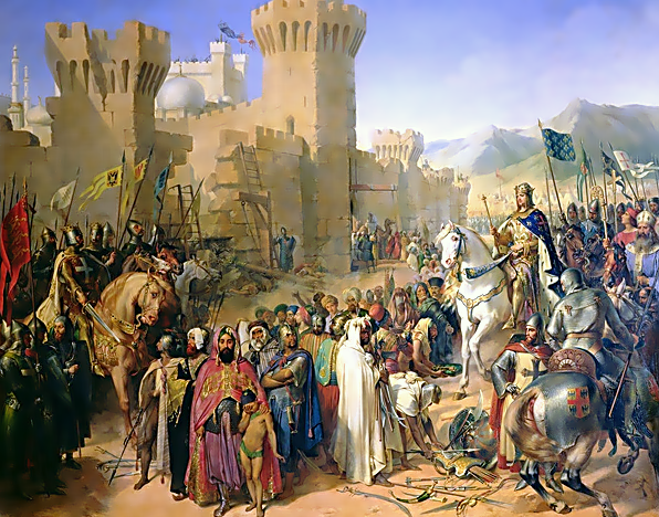 Ptolemais (Acre) given to Philip Augustus 1191